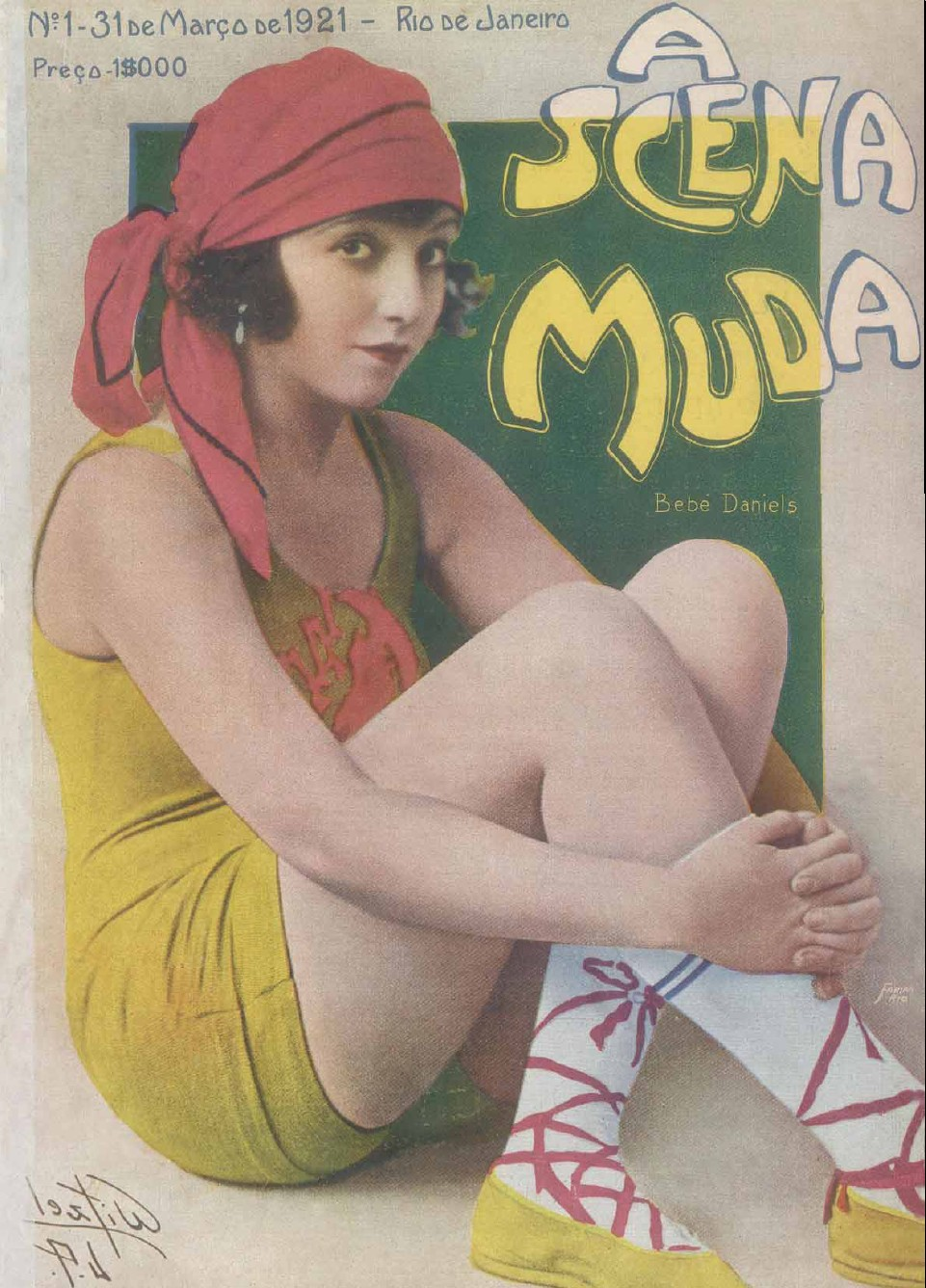 Front cover of the magazine A Scena Muda, number 1